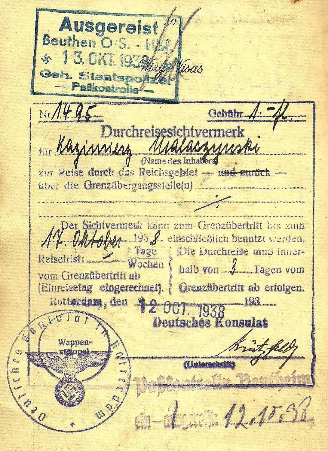 Transit visa for Germany in a Polish passport, issued in Rotterdam on 1938-10-12, valid for 3 days' transit. Overstruck by entry stamp from passport control station Bentheim on 1938-10-12, and exit stamp from Gestapo passport control service in Beuthen, Upper Silesia, central station on 1938-10-13.